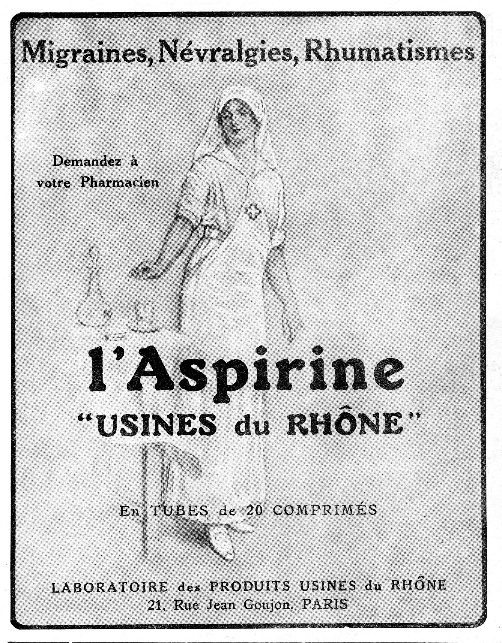 Aspirine Usines du Rhône : advertisement of 1923